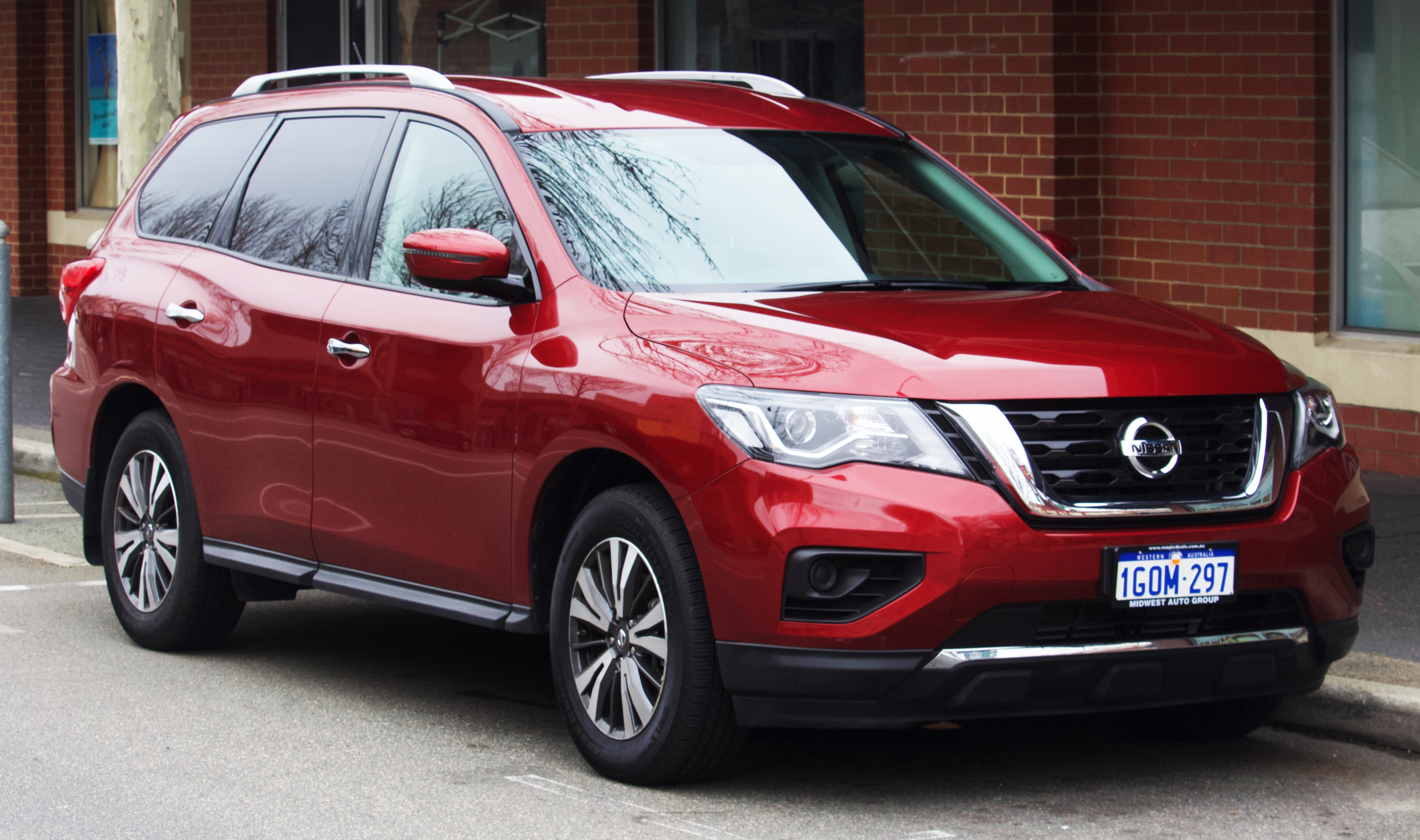 2018 Nissan Pathfinder (R52 MY18) ST 2WD wagon. Photographed in Fremantle, Western Australia, Australia.